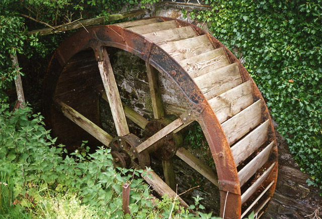 Waterwheel